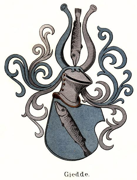 Coat of arms of the Giedde family